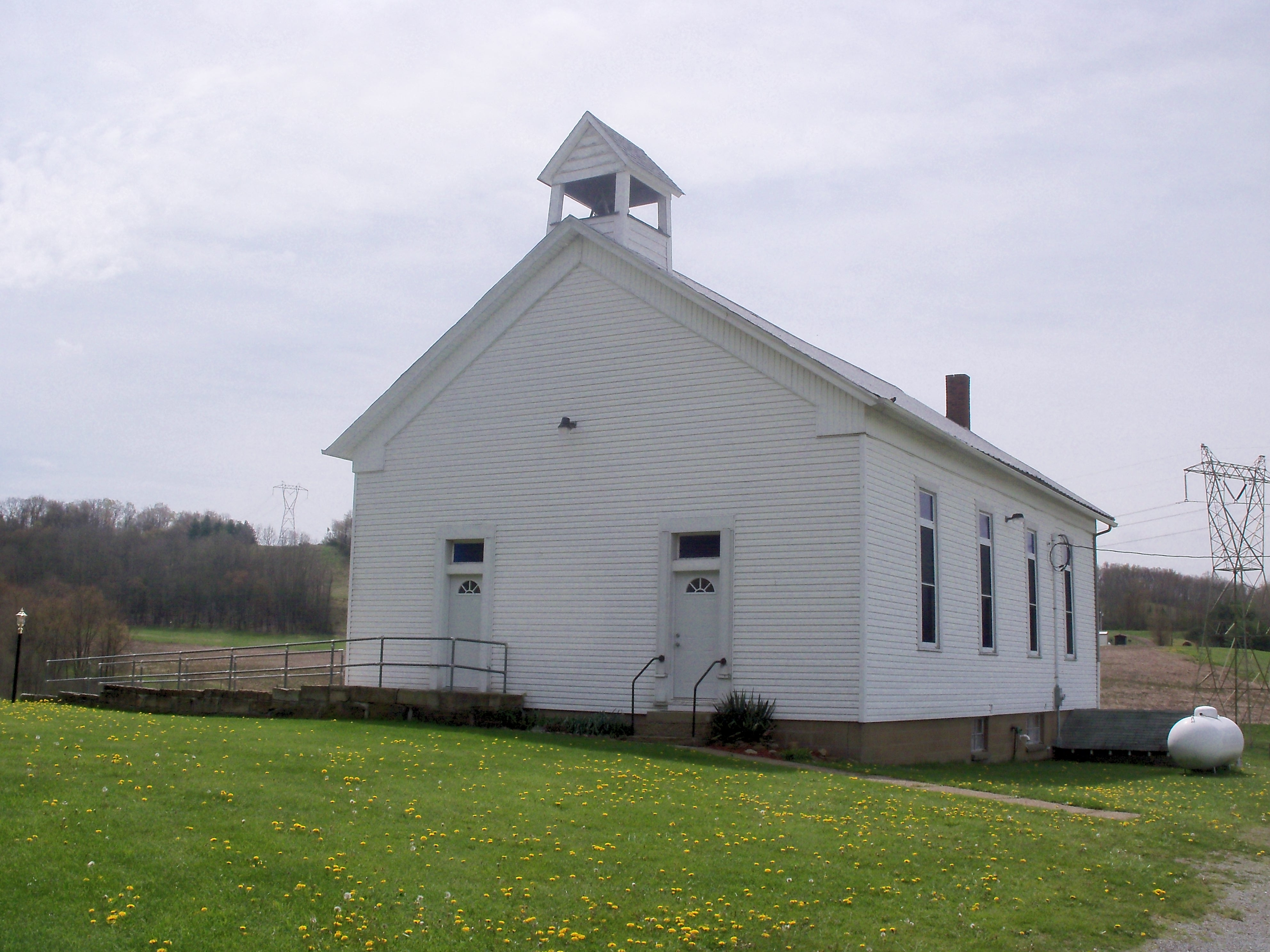 Riley's Church was established in 1876 between Salineville, Ohio and Mechanicstown, Ohio